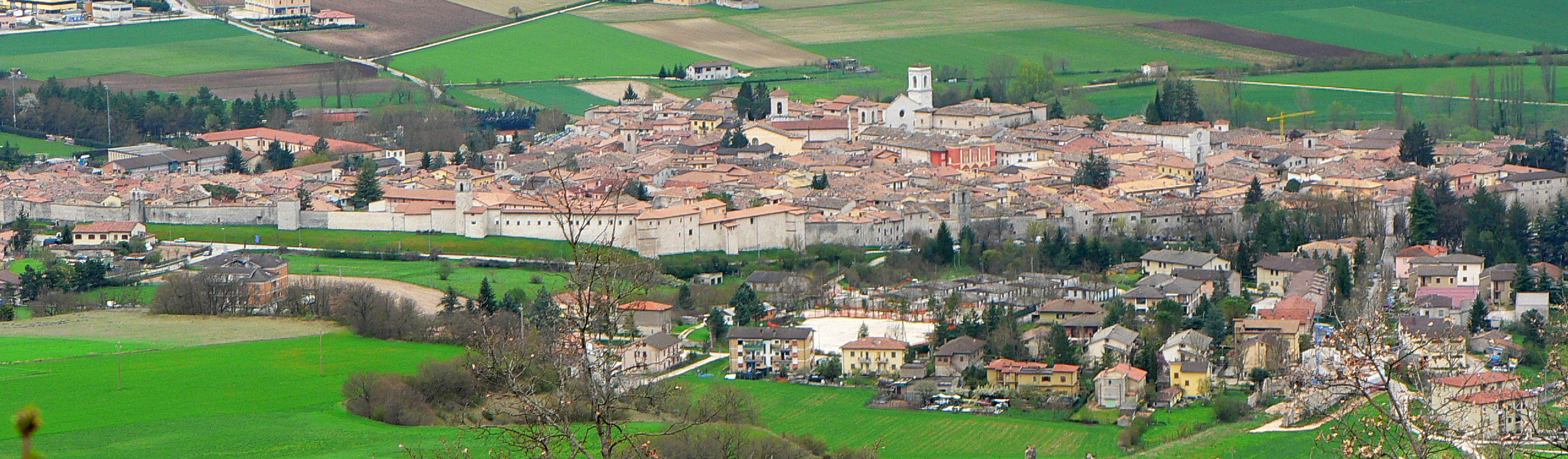 Panorama of the town of Norcia, Umbria